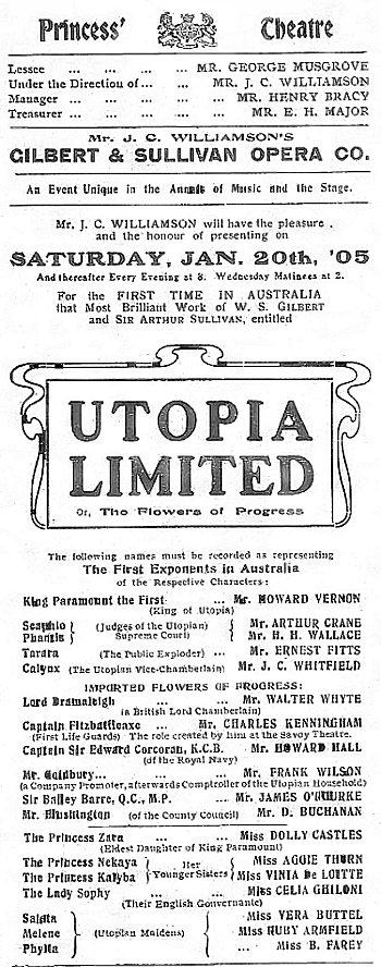 Theatre poster for the Australia premier of Gilbert and Sullivans Utopia Limited 20th January 1905